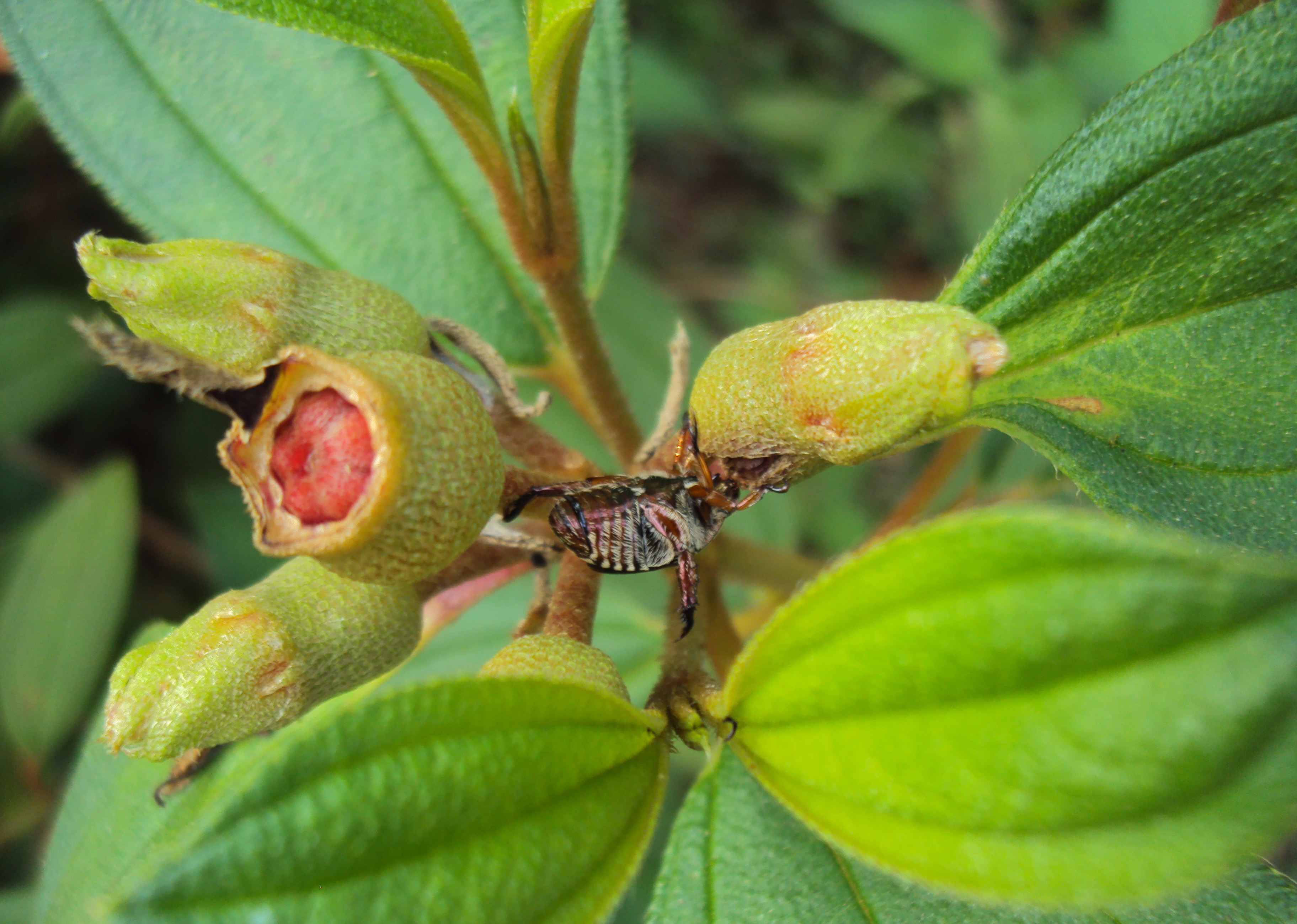 Melastoma malabathricum